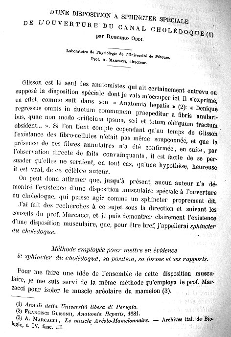 The first page of Ruggero Oddi`s article “D’une disposition a sphincter speciale de l’ouverture du canal choledoque”, 1887